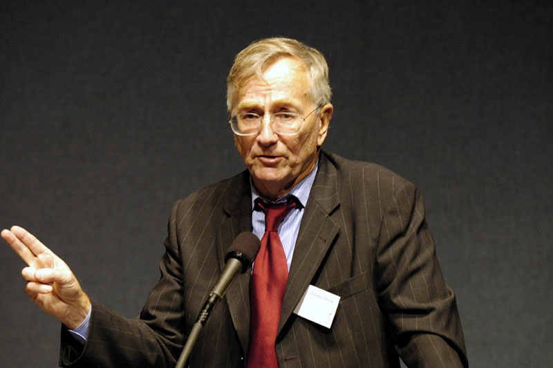 Seymour Hersh at the 2004 Letelier-Moffitt Human Rights Award